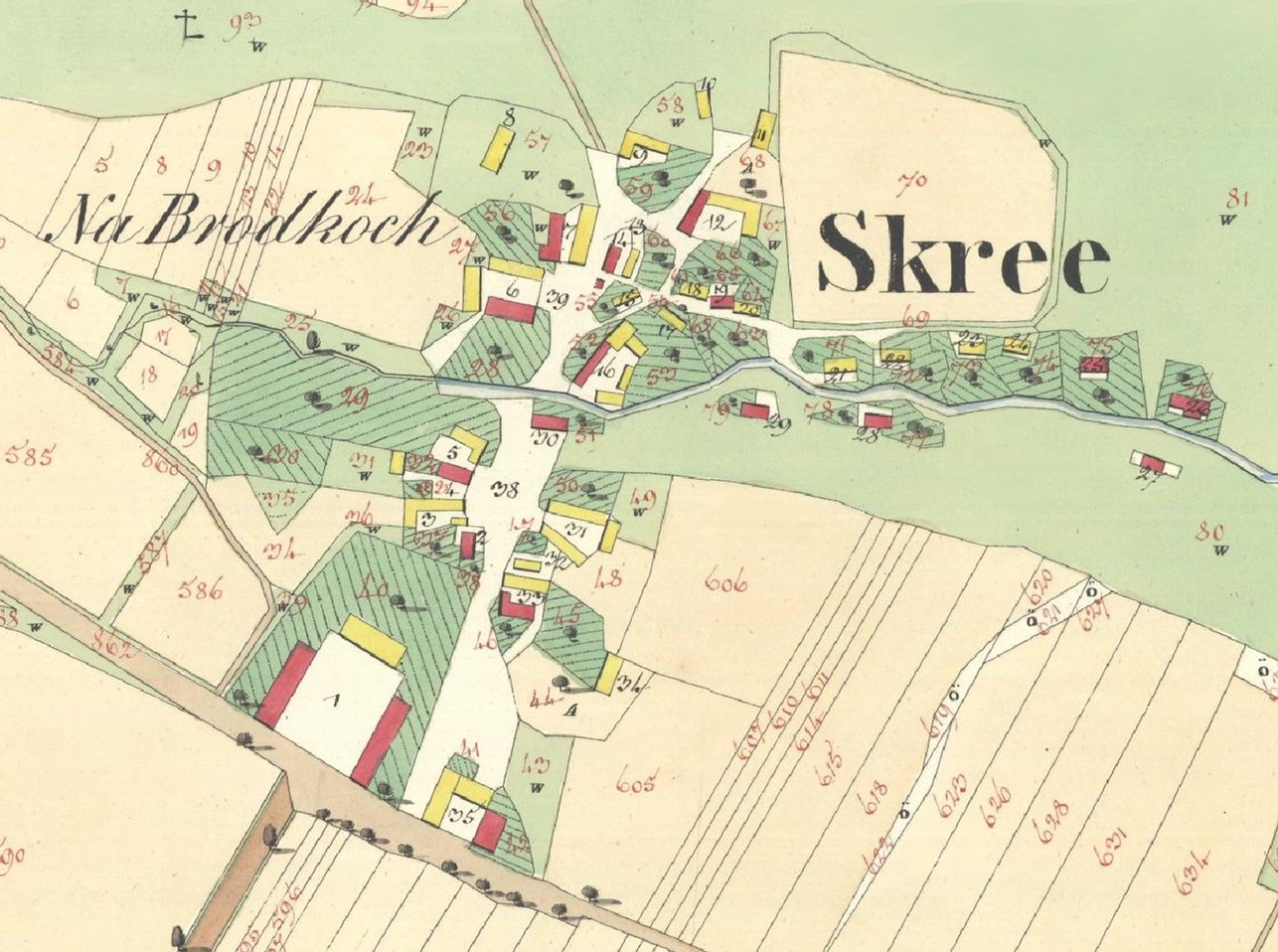 Dukovany-Skryje. Part of Imperial Imprint of the Stable Cadastre from 1825